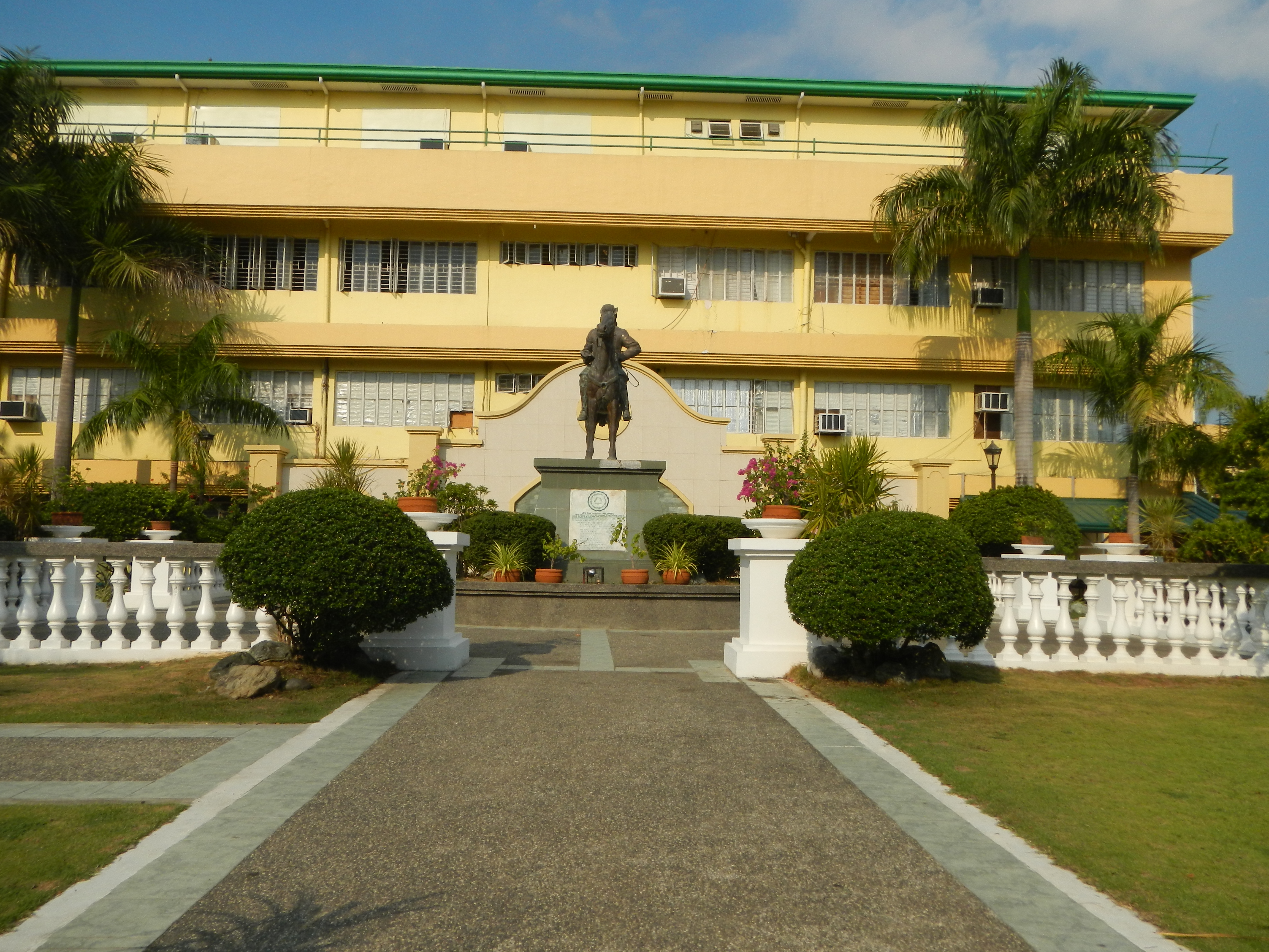 Wesleyan University Philippines (WU-P) Founded: July 1, 1946 United Methodist Church UMC (Statue of John Wesleystands prominently at the J.W. Park adjacent to the Administration Building - Mabini Street Extension, Barangay Mabini Extension(Poblacion), Cabanatuan City, Nueva Ecija).